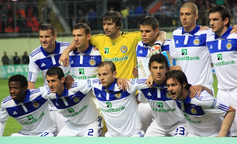 FC Dynamo Kyiv (2011 Ukrainian Cup Final)